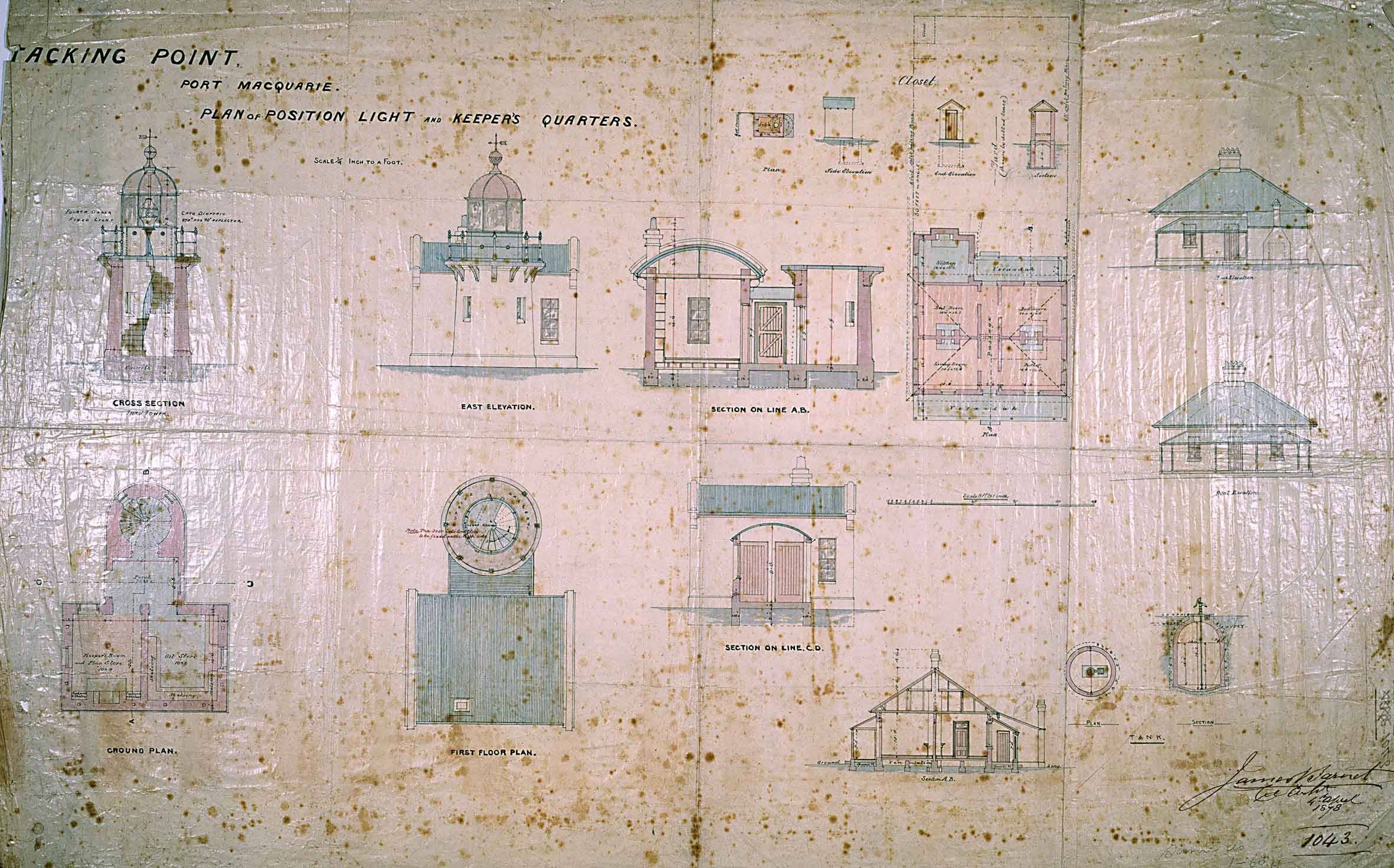 Tacking Point Light, plan of lighthouse and keepers' quarters, by James Barnet - NSW Colonial Architect, 1878